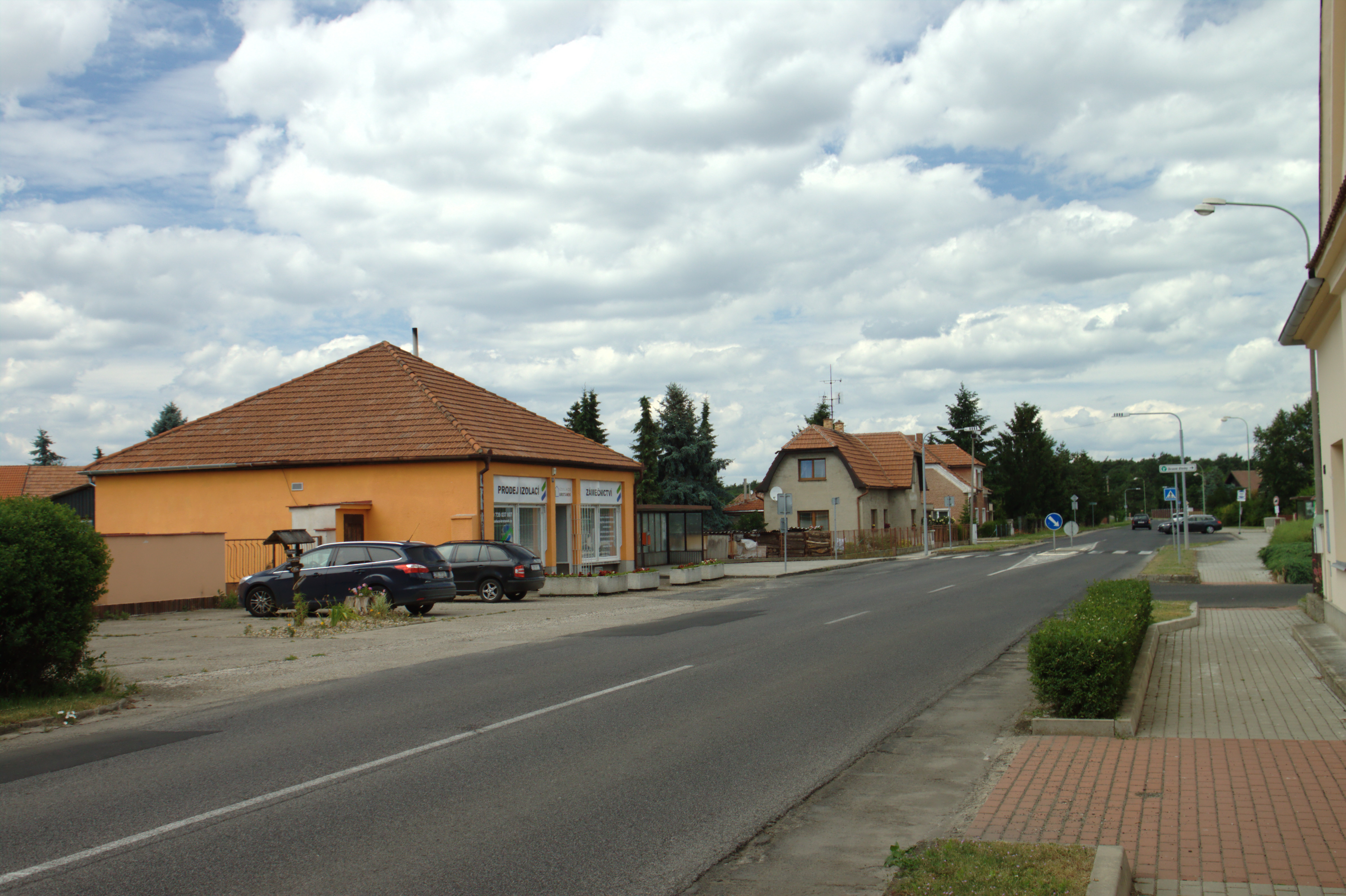 Buildings in Vědomice, north from Roudnice nad Labem, CZ